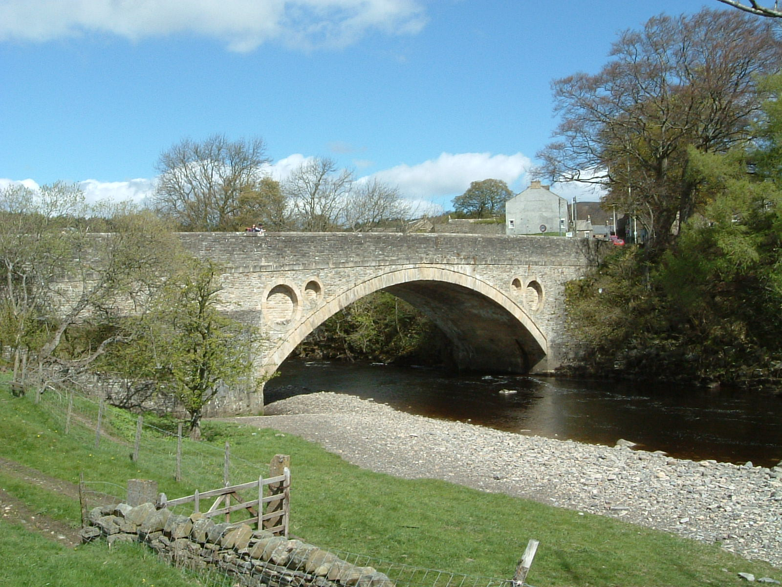 A bridge at Middleton-in-Teesdale. Taken by James@hopgrove, April 2005.